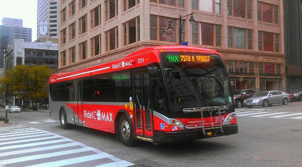 Troost Max Line in Downtown Kansas City, MO in new RideKC Colors